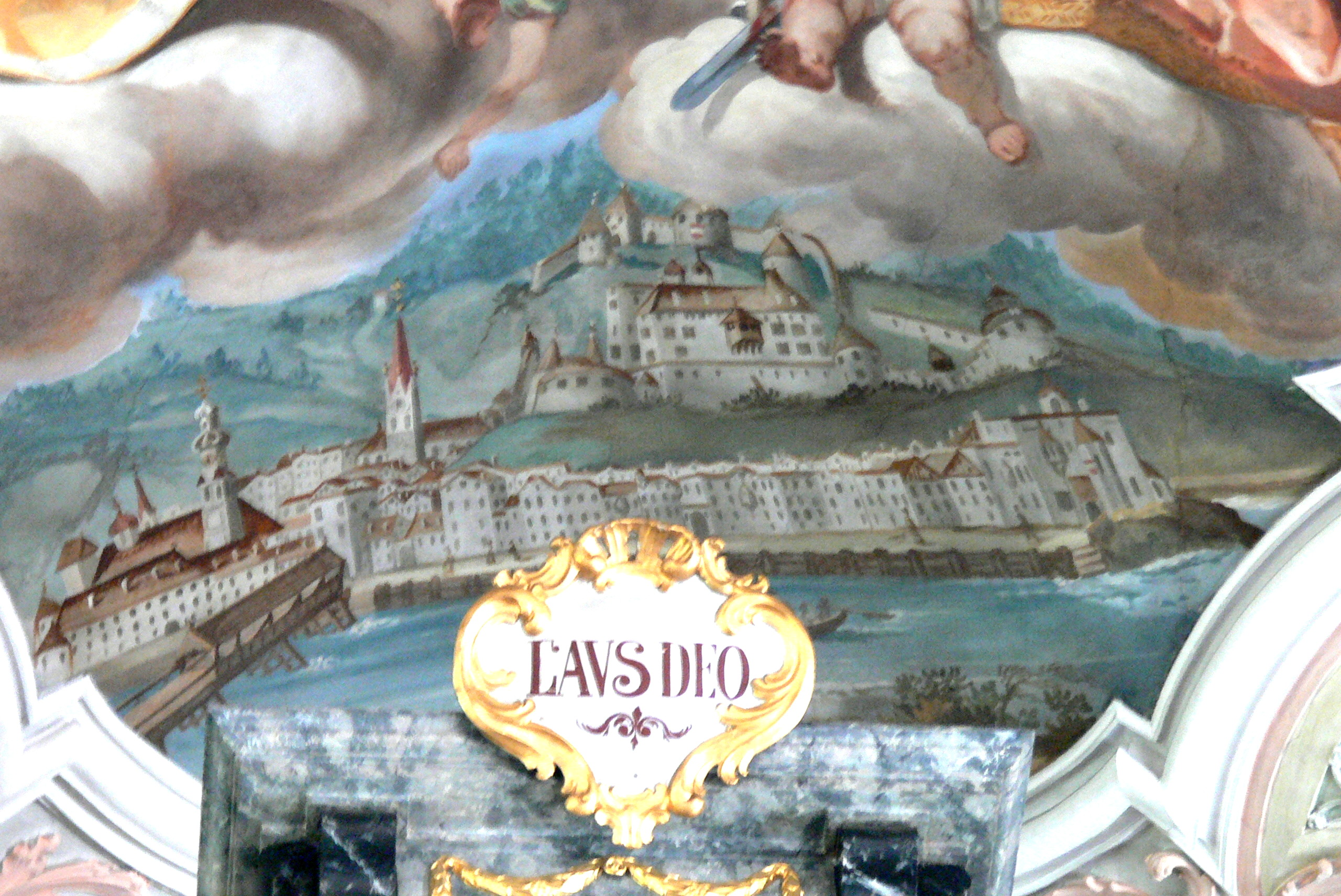 Rattenberg (Tyrol). Saint Virgil parish church - Citizen church: Ecclesia-fresco ( 1737 ) by Matthäus Günther - detail: View of historic Rattenberg.